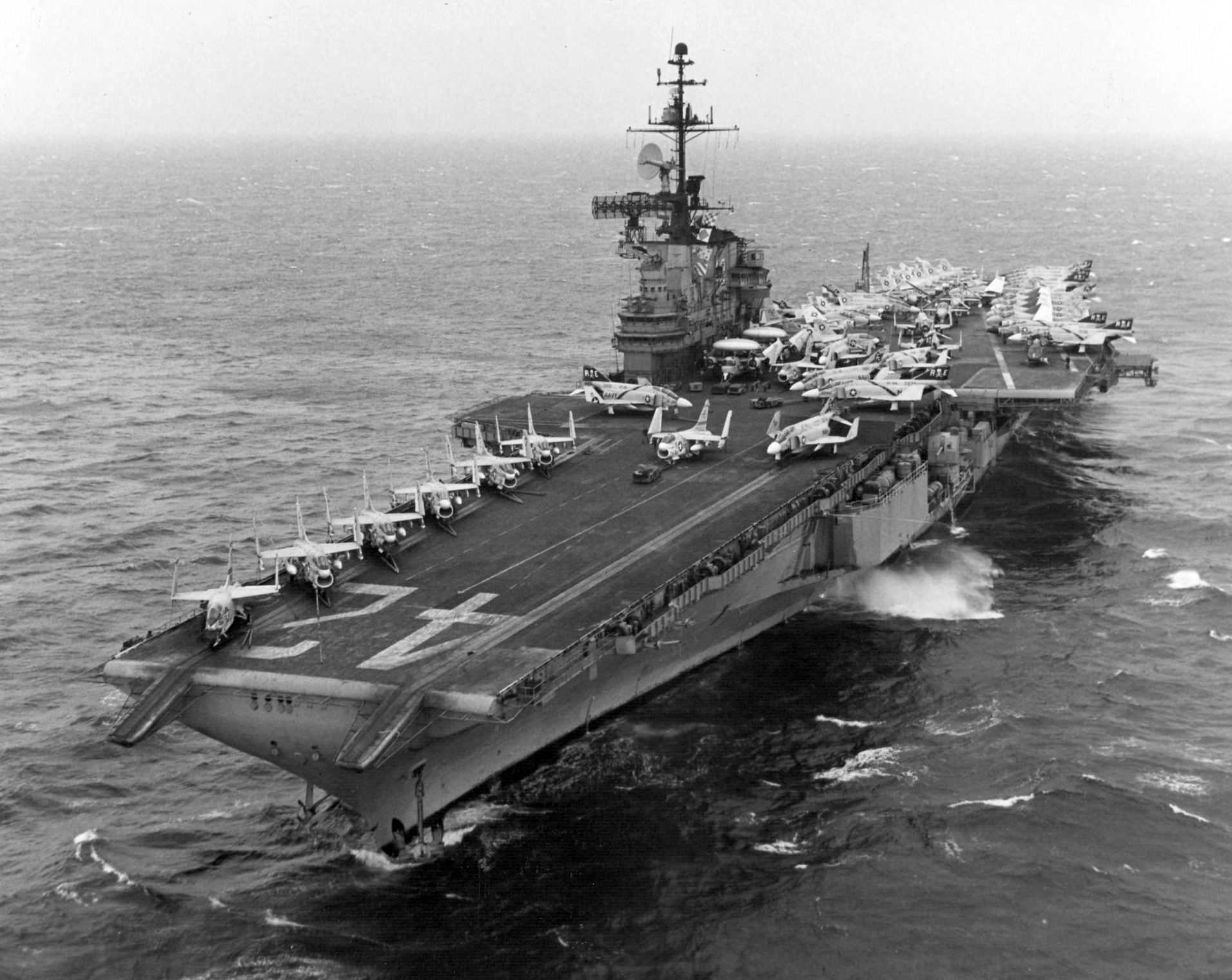 The U.S. Navy aircraft carrier USS Franklin D. Roosevelt (CVA-42) underway. Franklin D. Roosevelt, with assigned Attack Carrier Air Wing 6 (CVW-6), was deployed to the Mediterranean Sea from 29 January to 28 July 1971. This was the only deployment on which Kaman HH-2D Seasprites of Helicopter Combat Support Squadron 2 (HC-2) Det.42 were assigned to CVW-6. One HH-2D is visible just behind the starboard elevator.